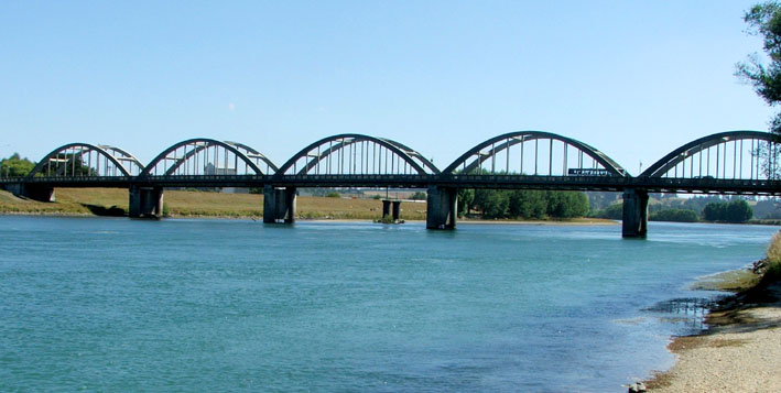 Balclutha Road Bridge crossing the Clutha River, Balclutha, New Zealand, photographed by James Dignan (User:Grutness) in February 2008